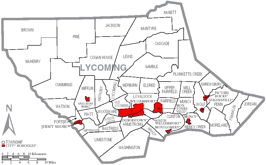 Map of Lycoming County with township and municipal bondaries is taken from US Census website [1] and modified by User:Ruhrfisch in August 2005. My modifications licensed under the GNU Free Documentation License.